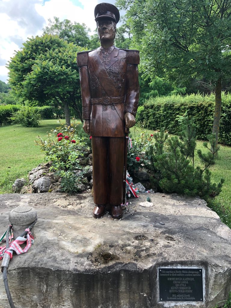 Horthy Statue, Kereki (erected on May 13, 2012)